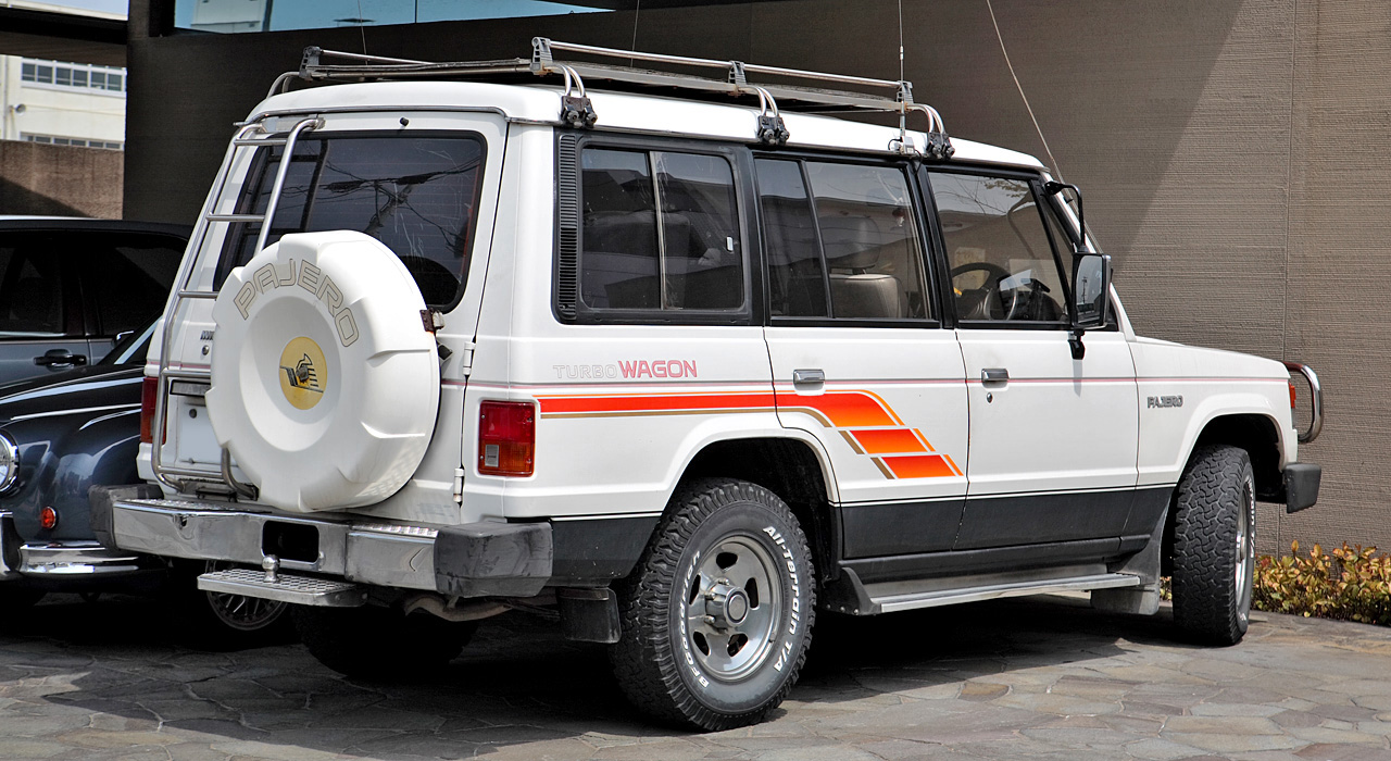 First generation Mitsubishi Pajero Mid-roof Wagon 2.5D Turbo XL ( L149GW )